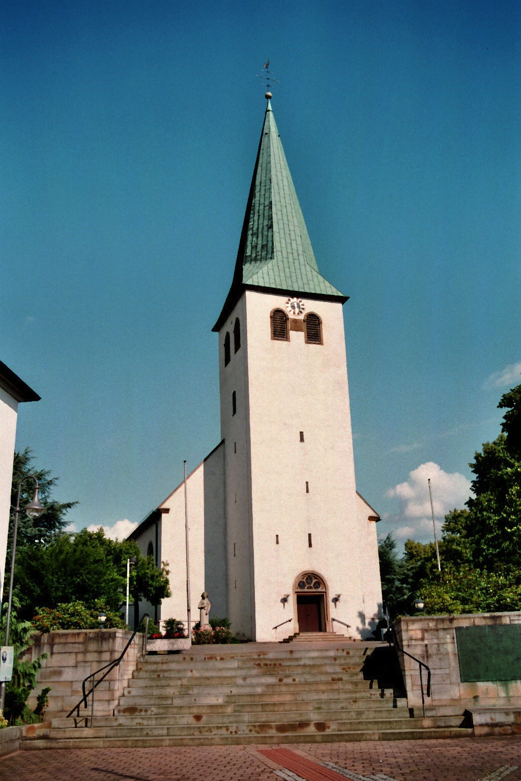 Roman catholic Saint Catherine church in Voltlage, Samtgemeinde Neuenkirchen, Landkreis Osnabrück, Lower Saxony, Germany.